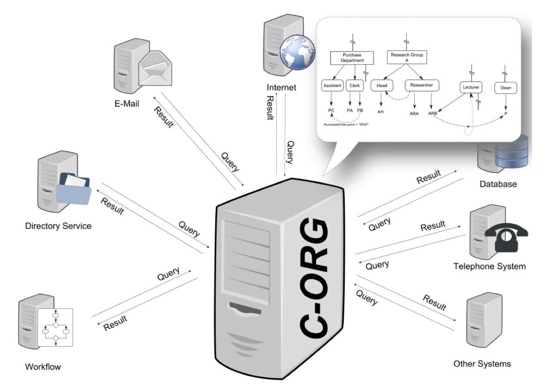 Usage of CORG